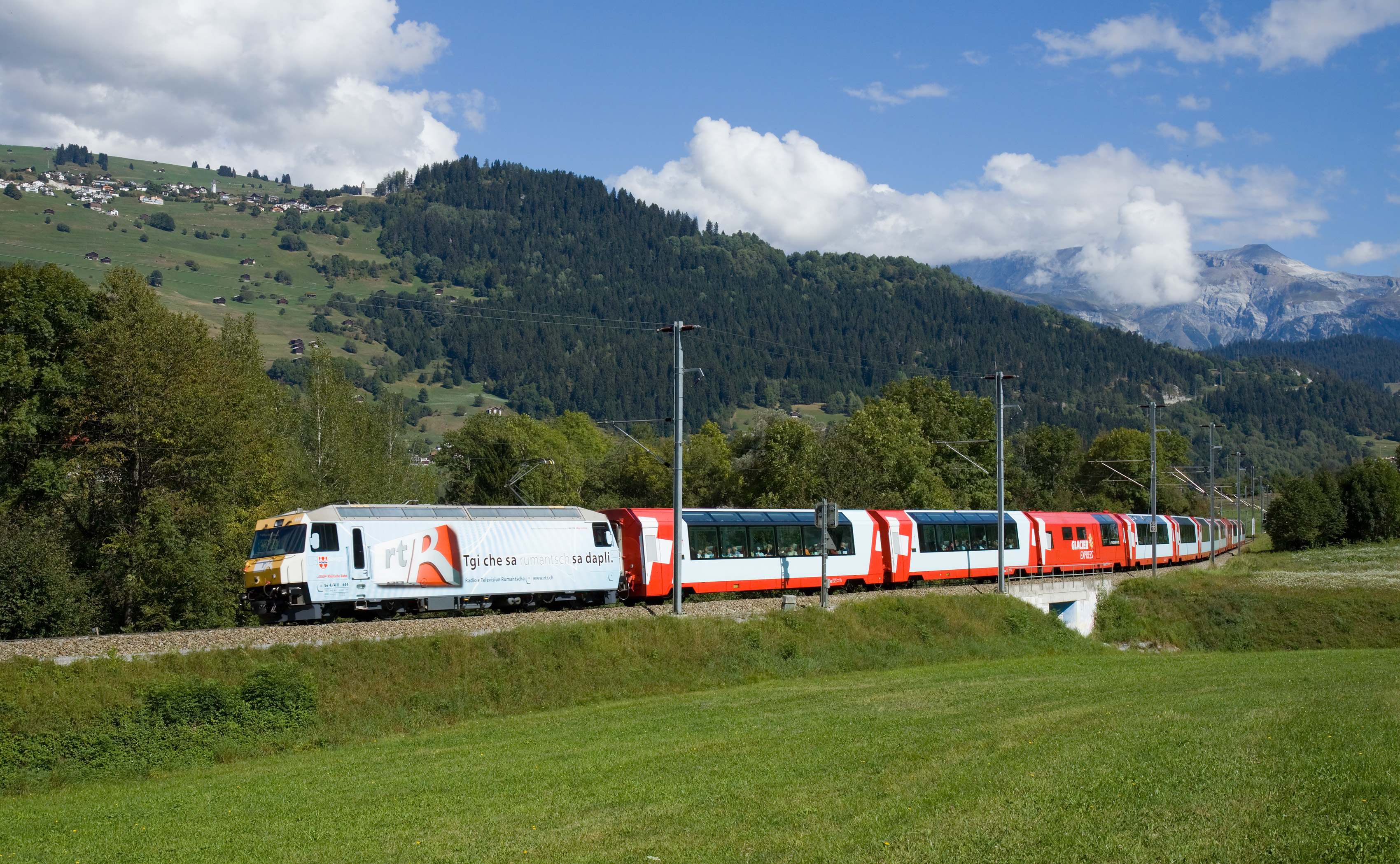 Glacier Express in the Rhine gorge just before Ilanz. The train is made up of two consists including two dining cars. It has to be split at Disentis, because the maximum train weight is much lower on the rack rail sections of the Matterhorn Gotthard Bahn than on the adhesion-only Rhaetian Railway lines.